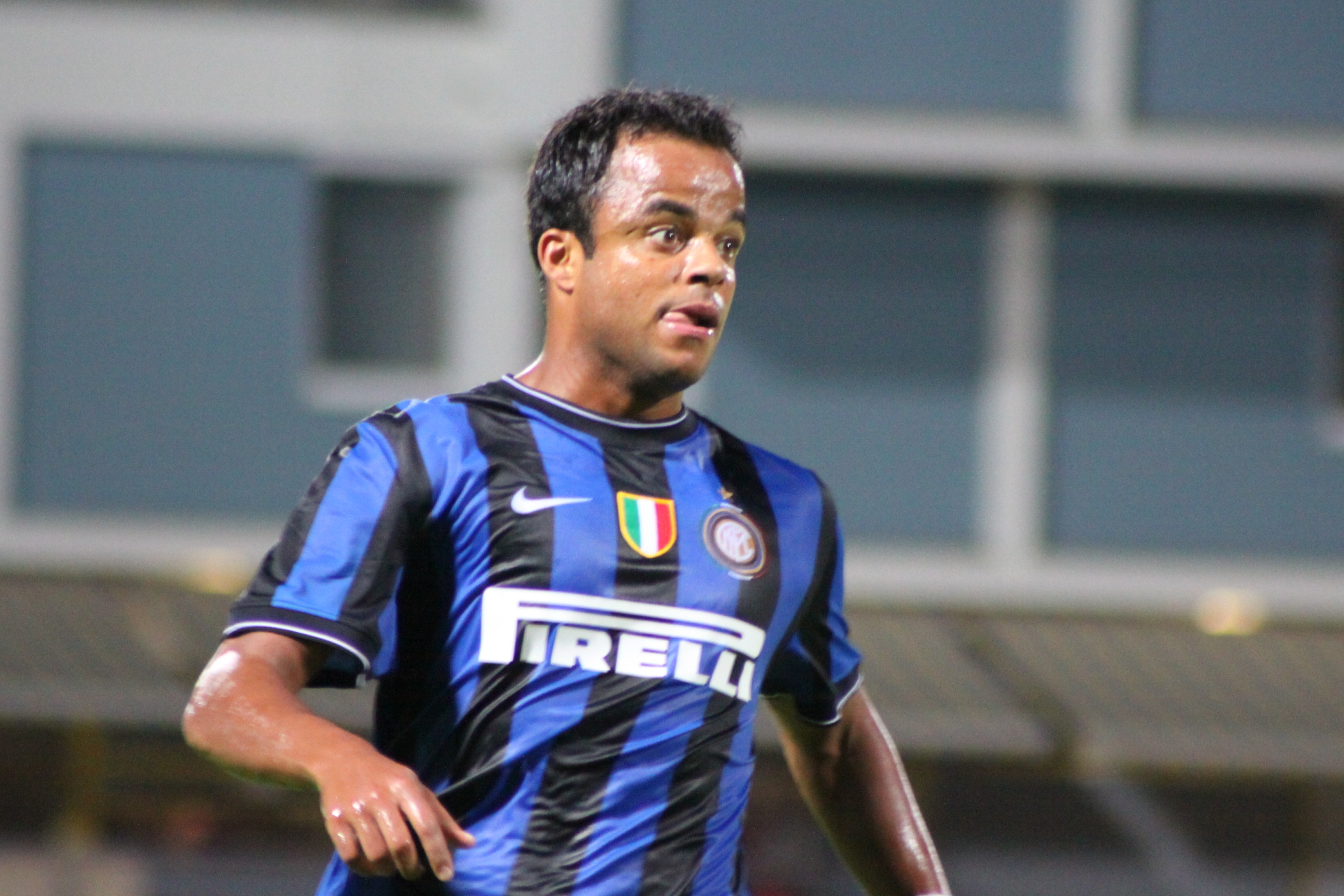 Mancini - F.C. Internazionale Milano it: Mancini - Football Club Internazionale Milano